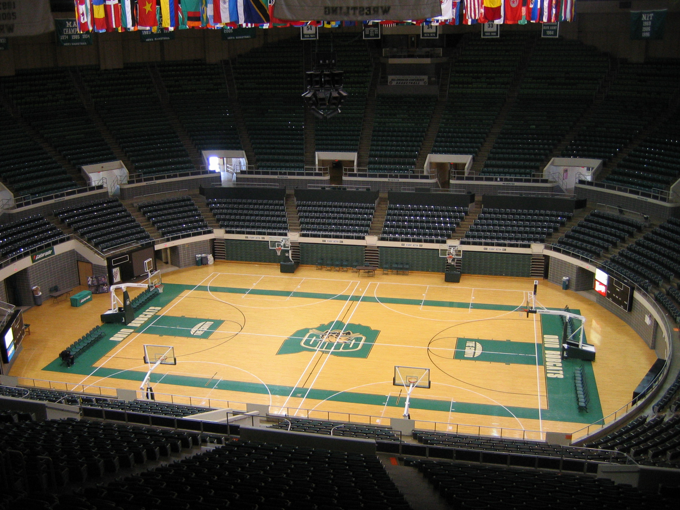 Football & Basketball Facilities Ohio U Arena